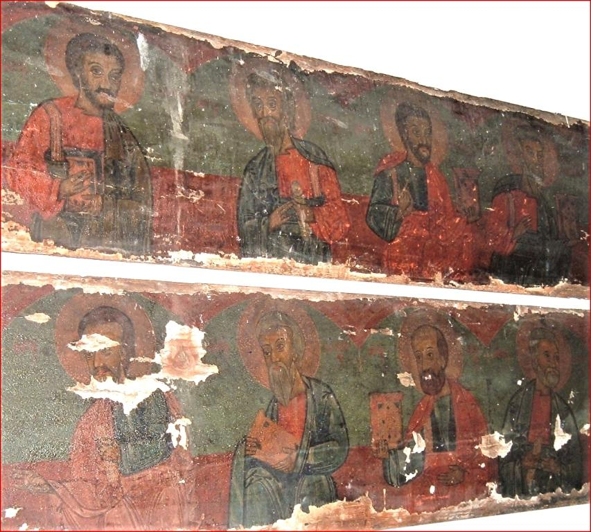 Apostles from Saint Mary Church in Old Chiflik Kastoria 17 Century